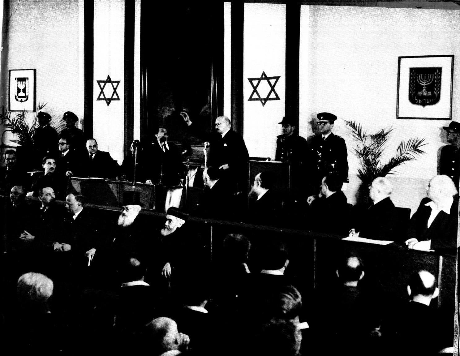 Haim Weizmann, first president of Israel, inauguration